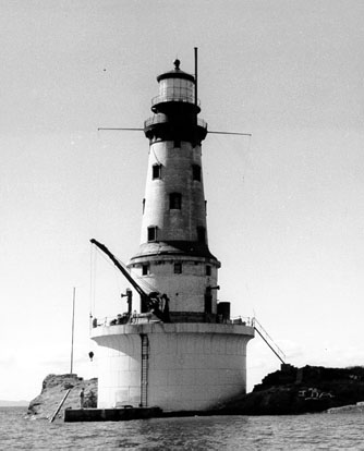 Rock of Ages Light (Keweenaw County, Michigan)